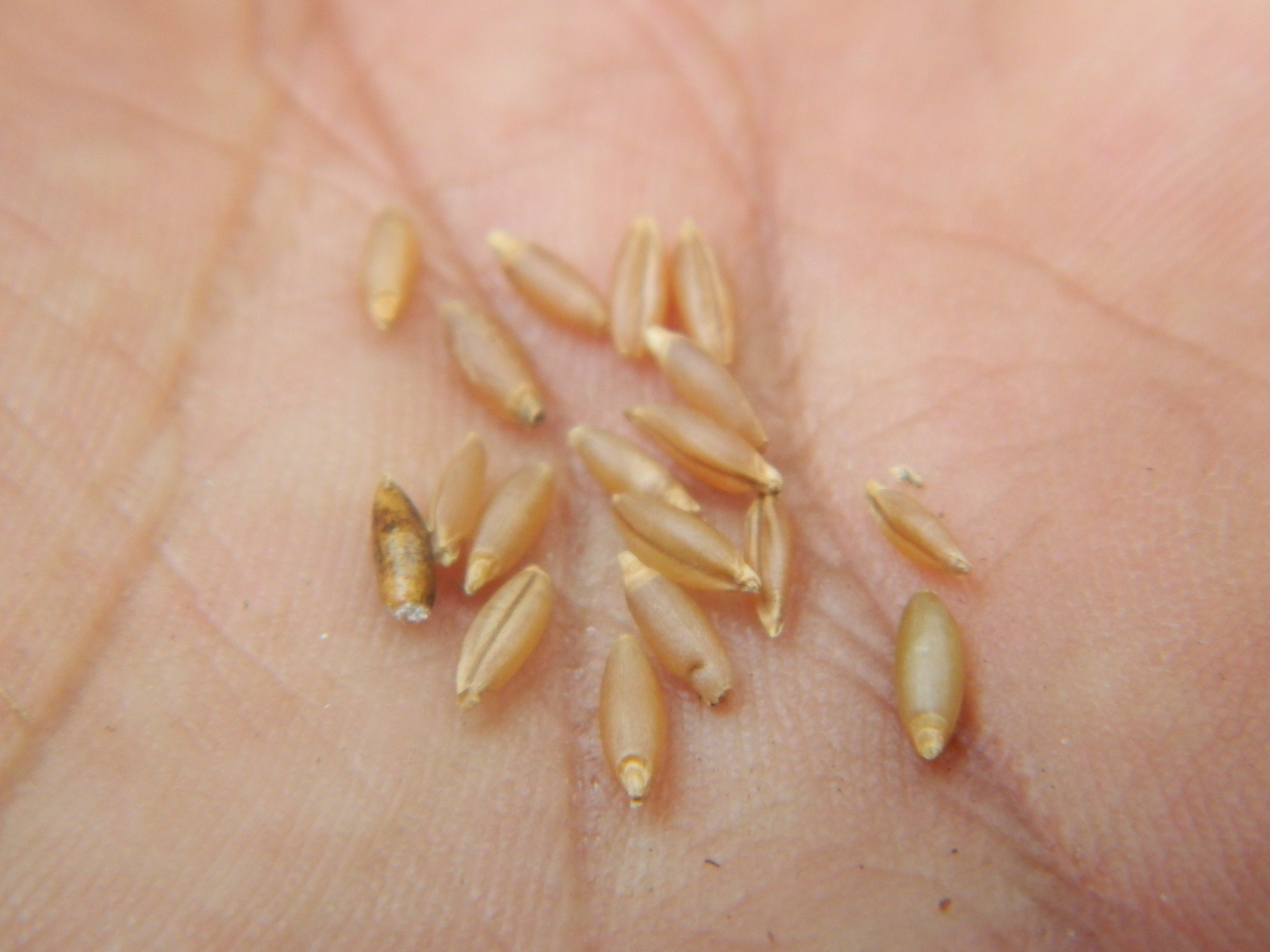 മുളയരി വീണു്കിടക്കുന്നു